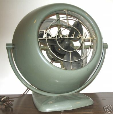 Privately owned picture of privately owned Vornado Fan.